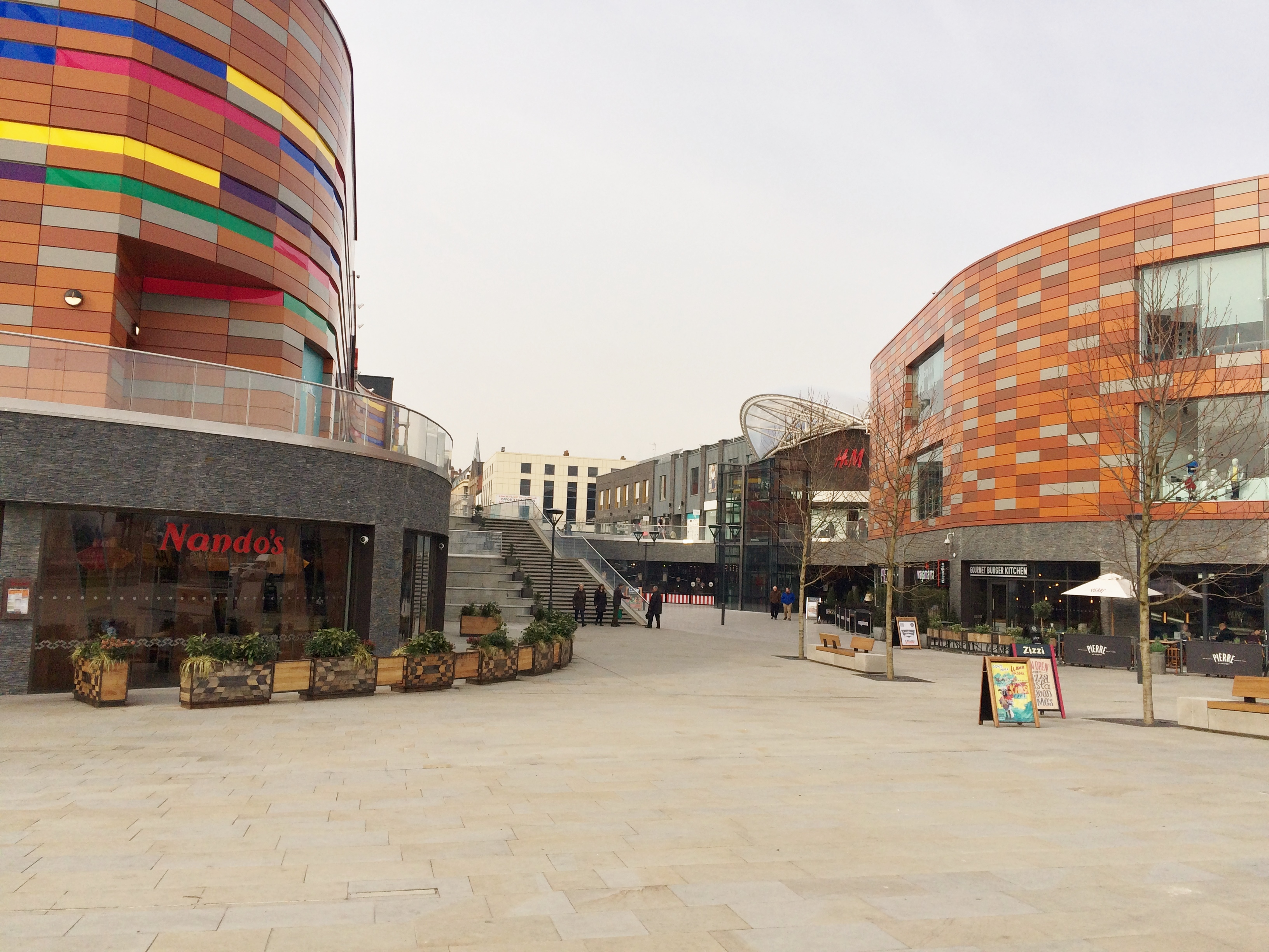 Friars Walk, Newport, South Wales - shopping and entertainment complex